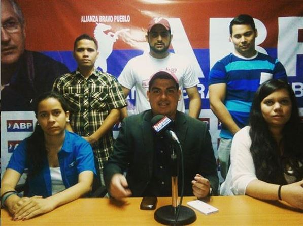 Oscar Tellechea Rueda de Prensa ABP